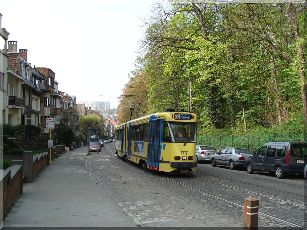 Brussels tramway,line 97 at Wolvendael towards his new terminus.